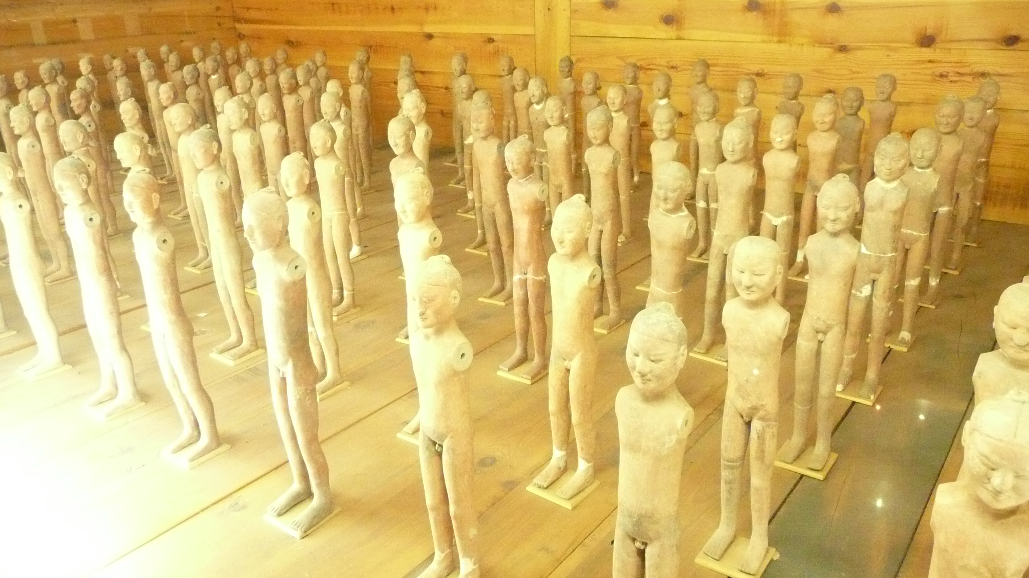 Han Yang Ling - Mausoleum of Jingdi, Han Emperor, Xianyang, near Xi'an